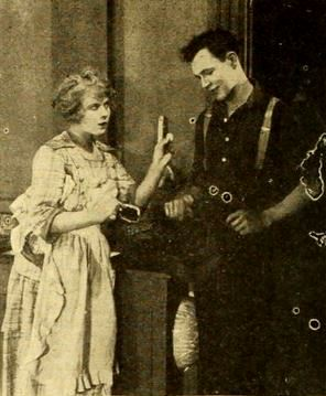 Still from the American comedy film Greased Lightning (1919) with Charles Ray and Wanda Hawley, on page 566 of the April 26, 1919 Moving Picture World.